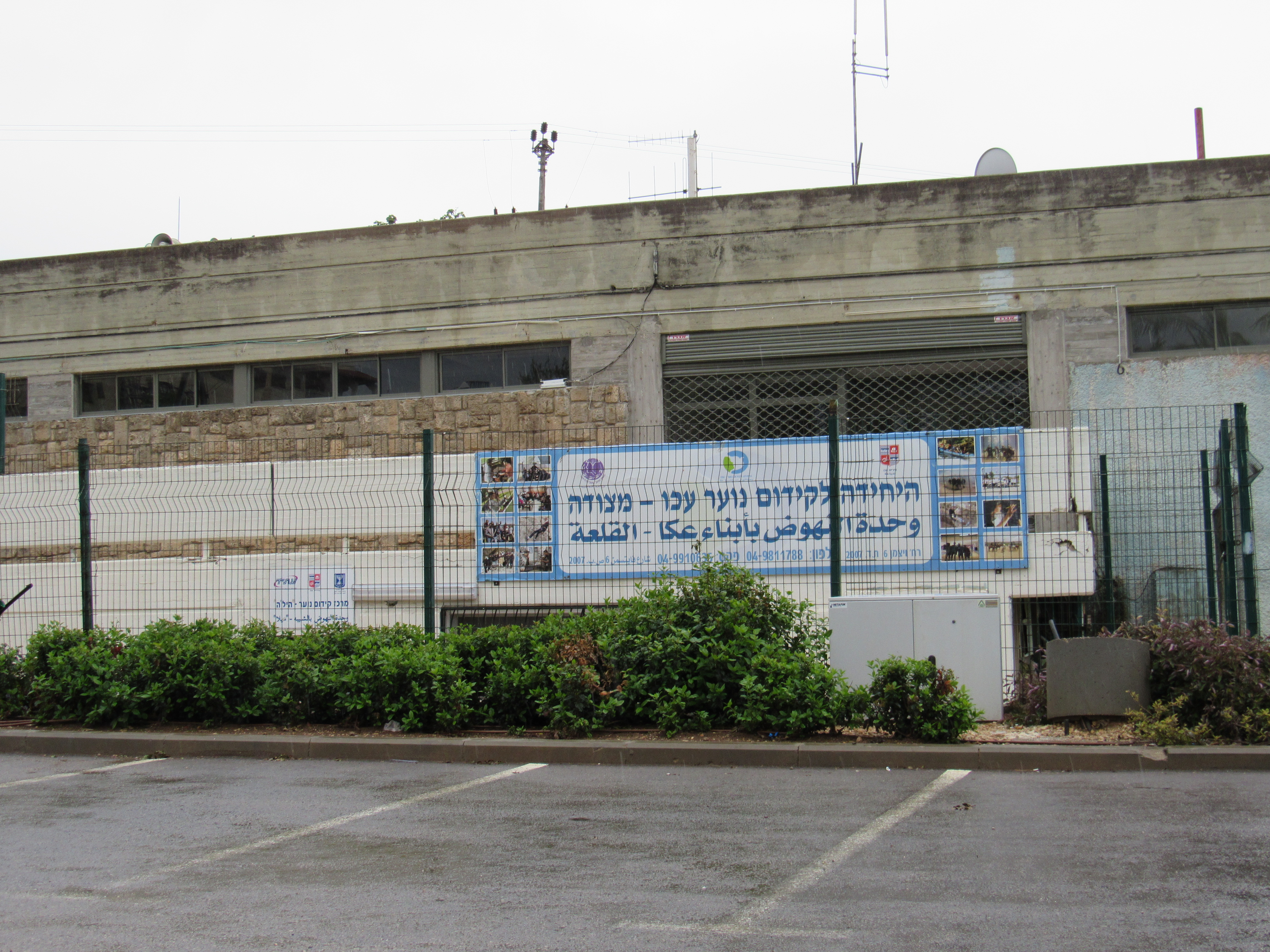 Metsudah, Youth Promotion Unit, Acre